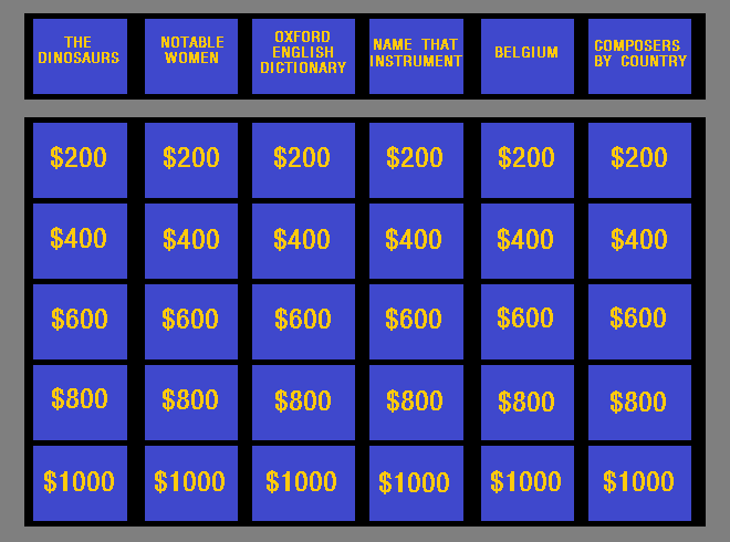 A self-made drawing of the Jeopardy! game board, whose layout is ineligible for copyright protection under U.S. laws.